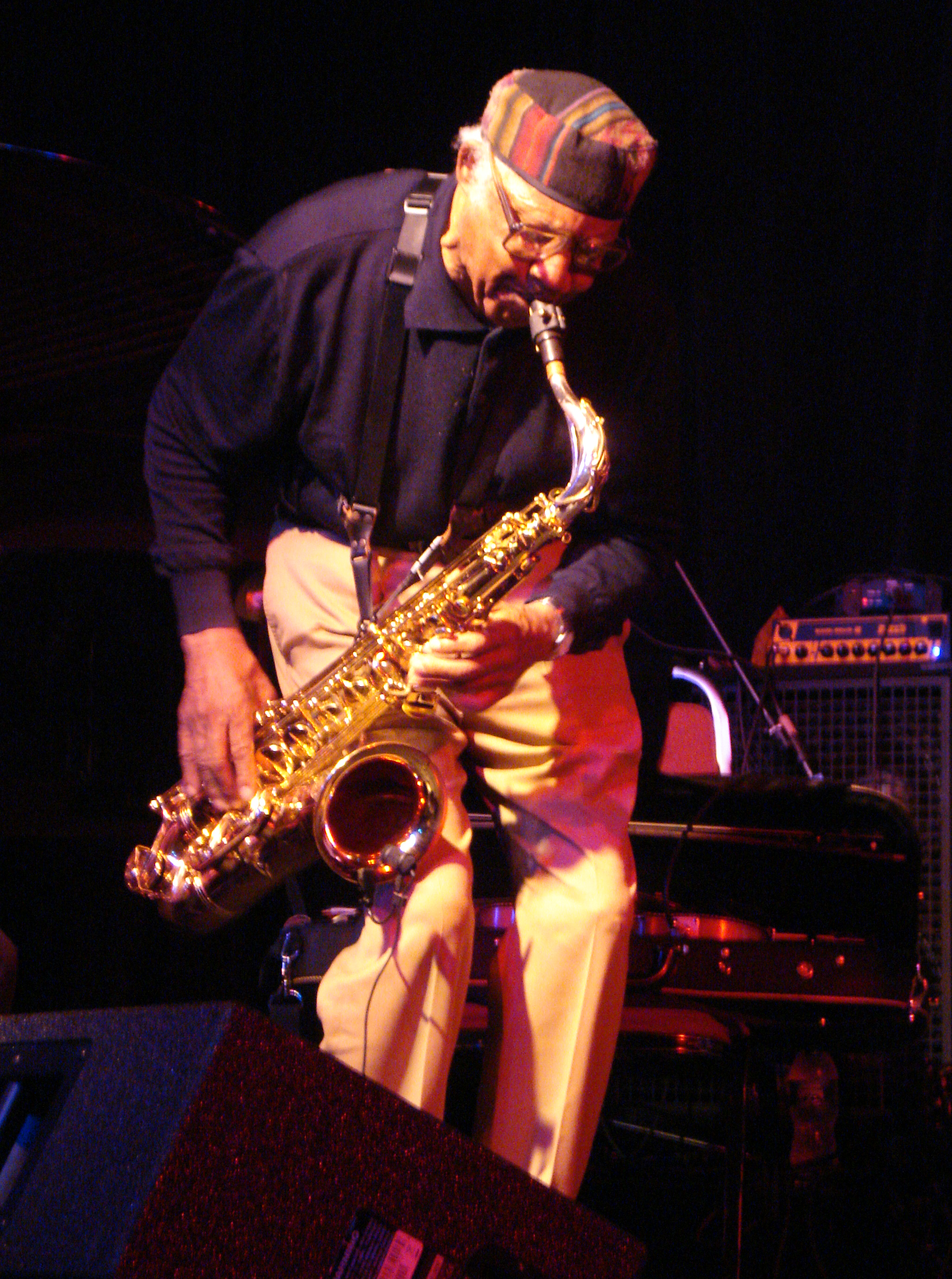 Fred Anderson at Vision Festival XIII.